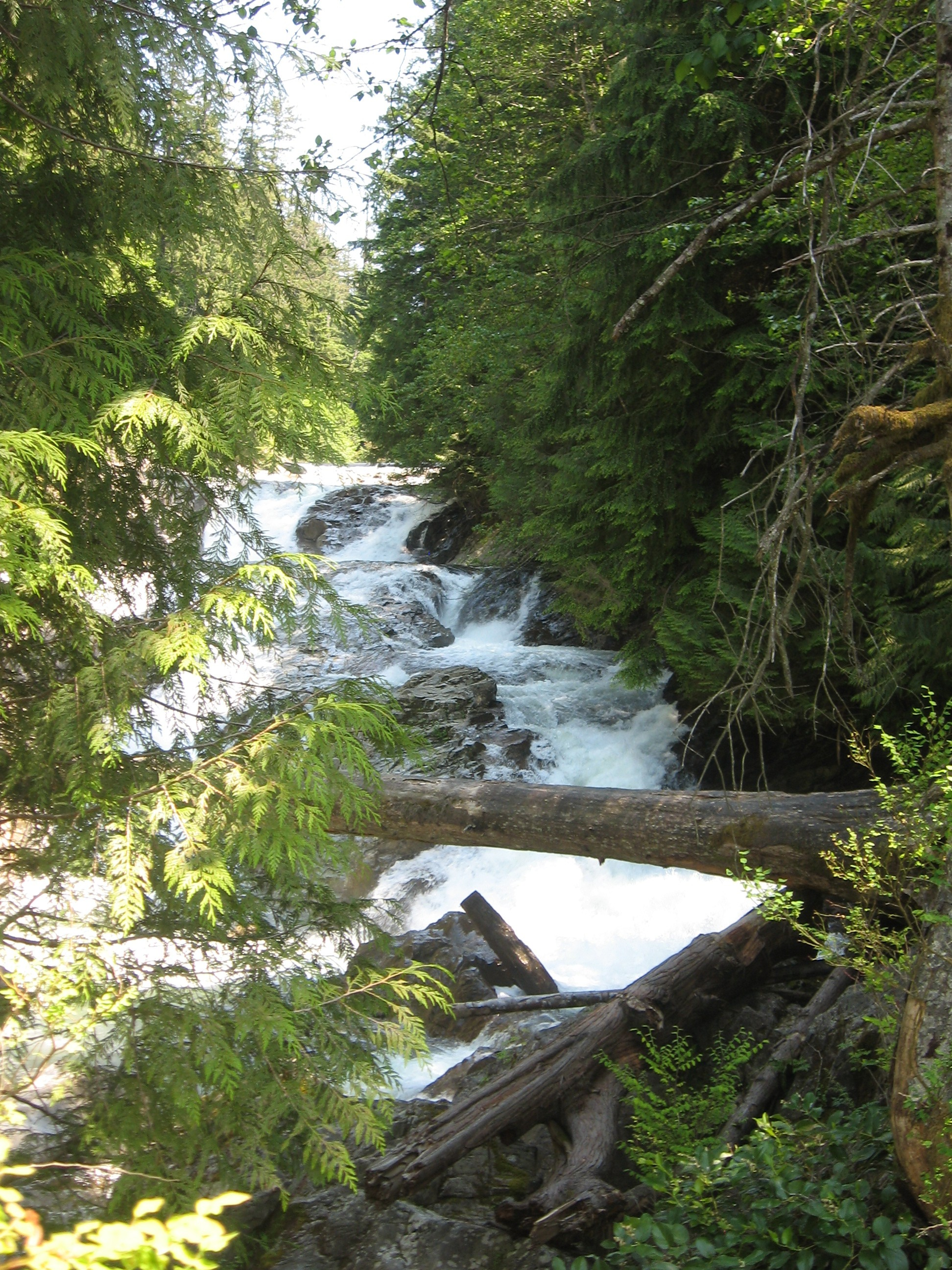 Snoqualmie River, in the Olallie Park.